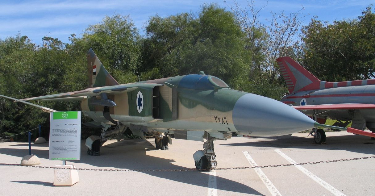 MiG-23ML at Muzeyon Heyl ha-Avir, Hatzerim airbase, Israel. 2006.